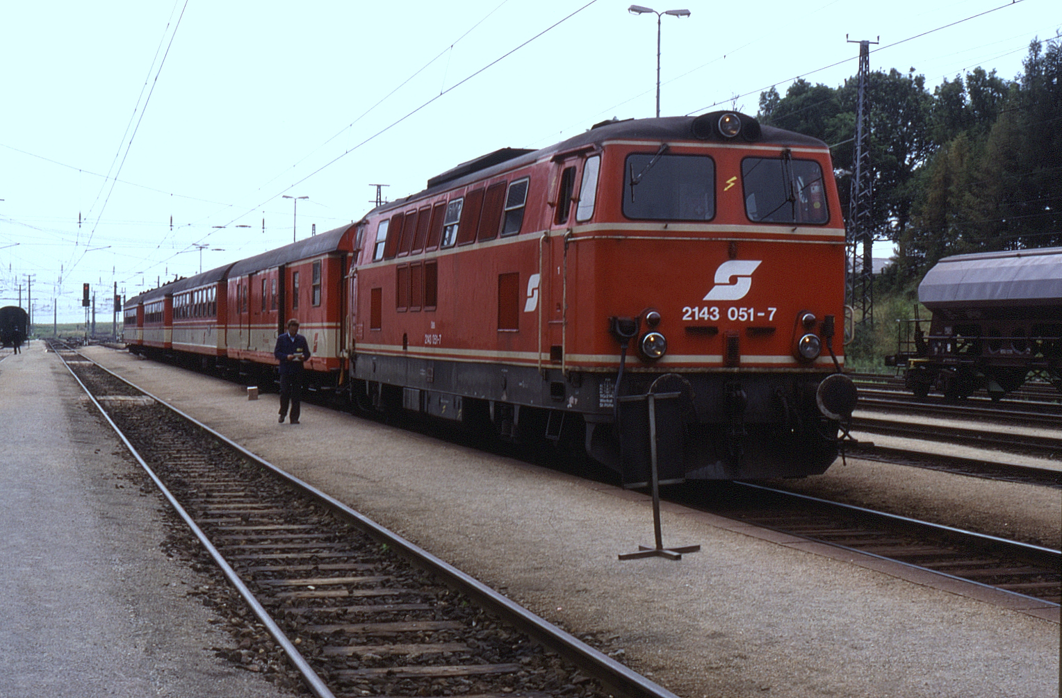 2143 051-7 at Sigmundsherberg, 4 August 1988. The Franz-Josefs-Bahn from Sigmundsherberg to Gmünd was still diesel operated.